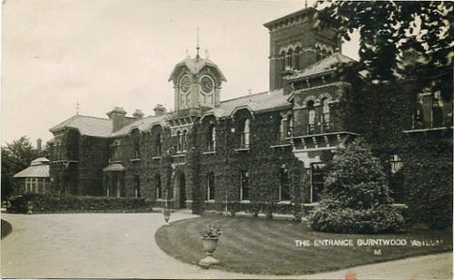 Old postcard of Burntwood Asylum